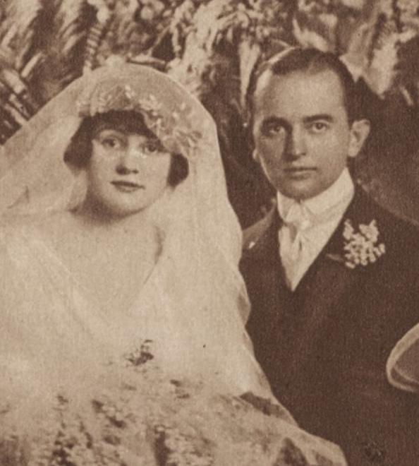 Angier B. Duke and his bride, formerly Cordelia Biddle